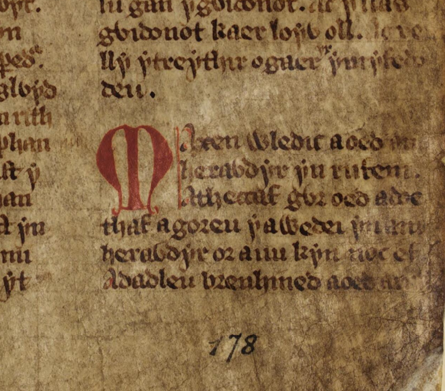 F.45.r of the White Book of Rhydderch showing the beginning of The dream of Mcasen Wledig. Part one of the two manuscripts of Llyfr Gwyn Rhydderch, comprising the Four Branches of the Mabinogion; Peredur; Macsen Wledig; Lludd a Llefelus; fragments of Owain a Luned; Geraint ac Enid; and an incomplete version of Kulhwch ac Olwen; and a poem by Llywelyn Moel